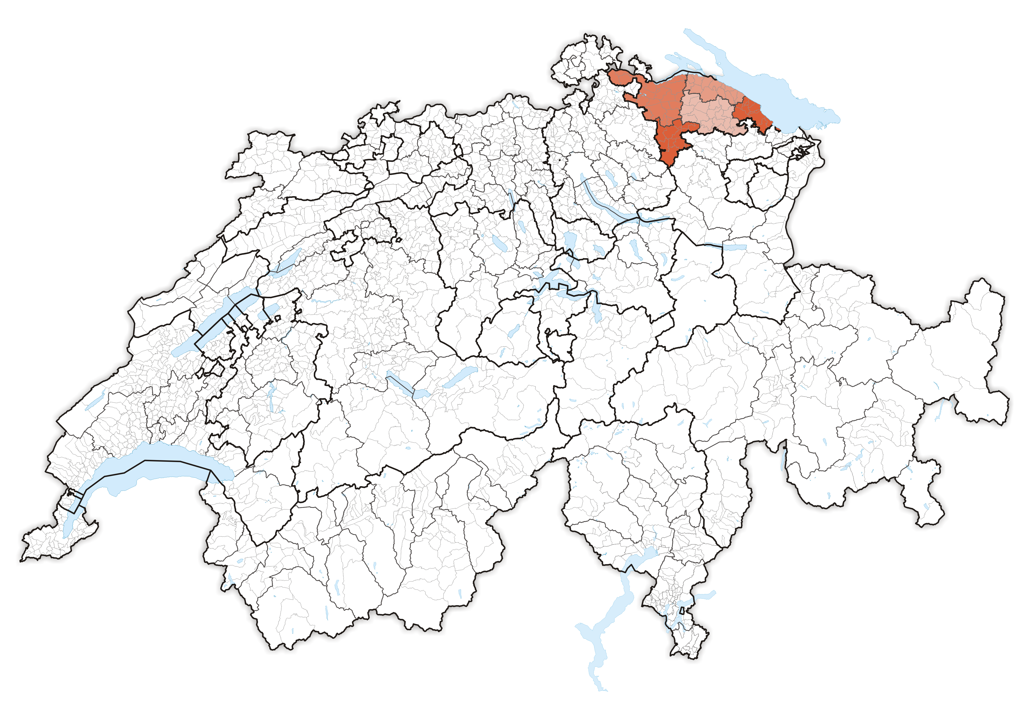 Canton Thurgau